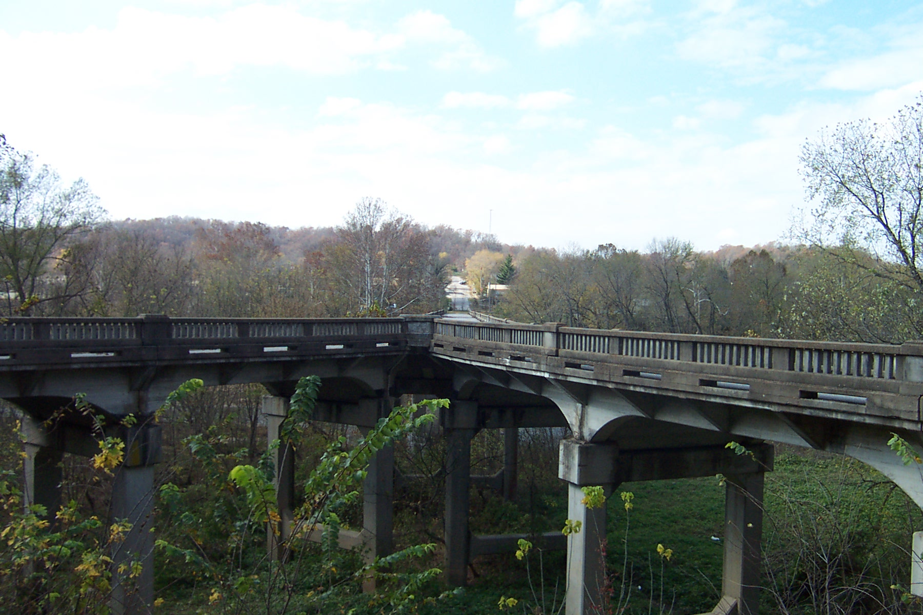 The Y-Bridge looking west towards downtown Galena, Missouri, USA.